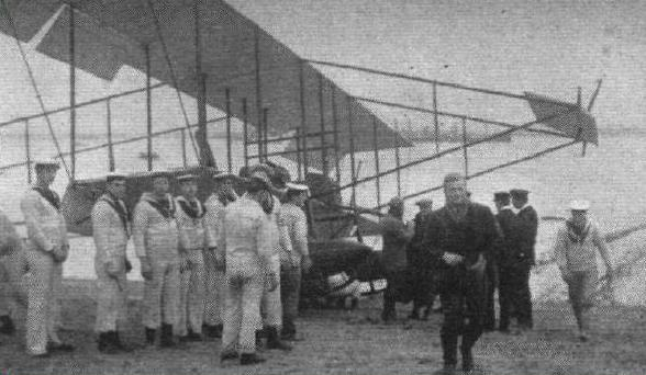 Lieutenant Arthur Longmore (in dark coat walking toward camera at right) immediately after making a water landing on the River Medway in the biplane behind him, the airbag-equipped Improved S.27 series biplane bearing Admiralty number 38 (often called the "Short S.38"). It was the first time a British seaplane had taken off from land and made a successful water landing.